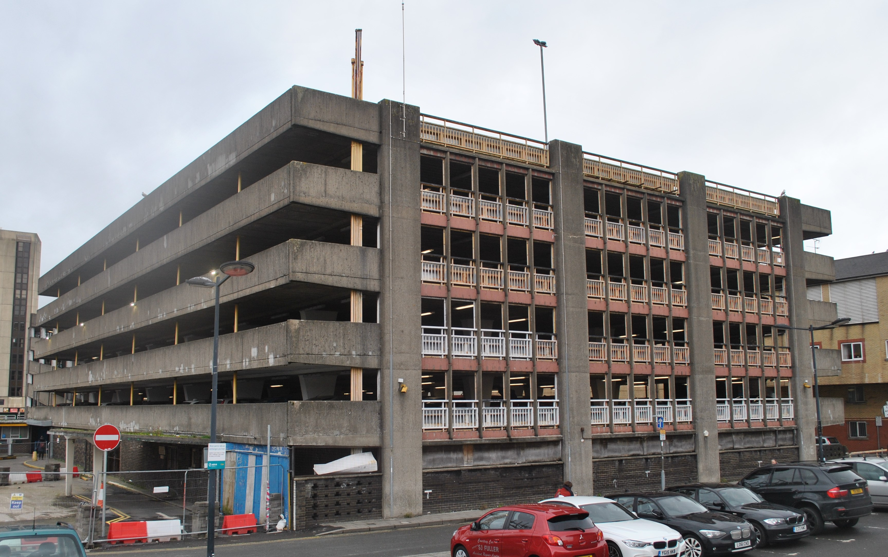 NCP Wood Street Car Park, Cardiff. Near Cardiff Central railway station.